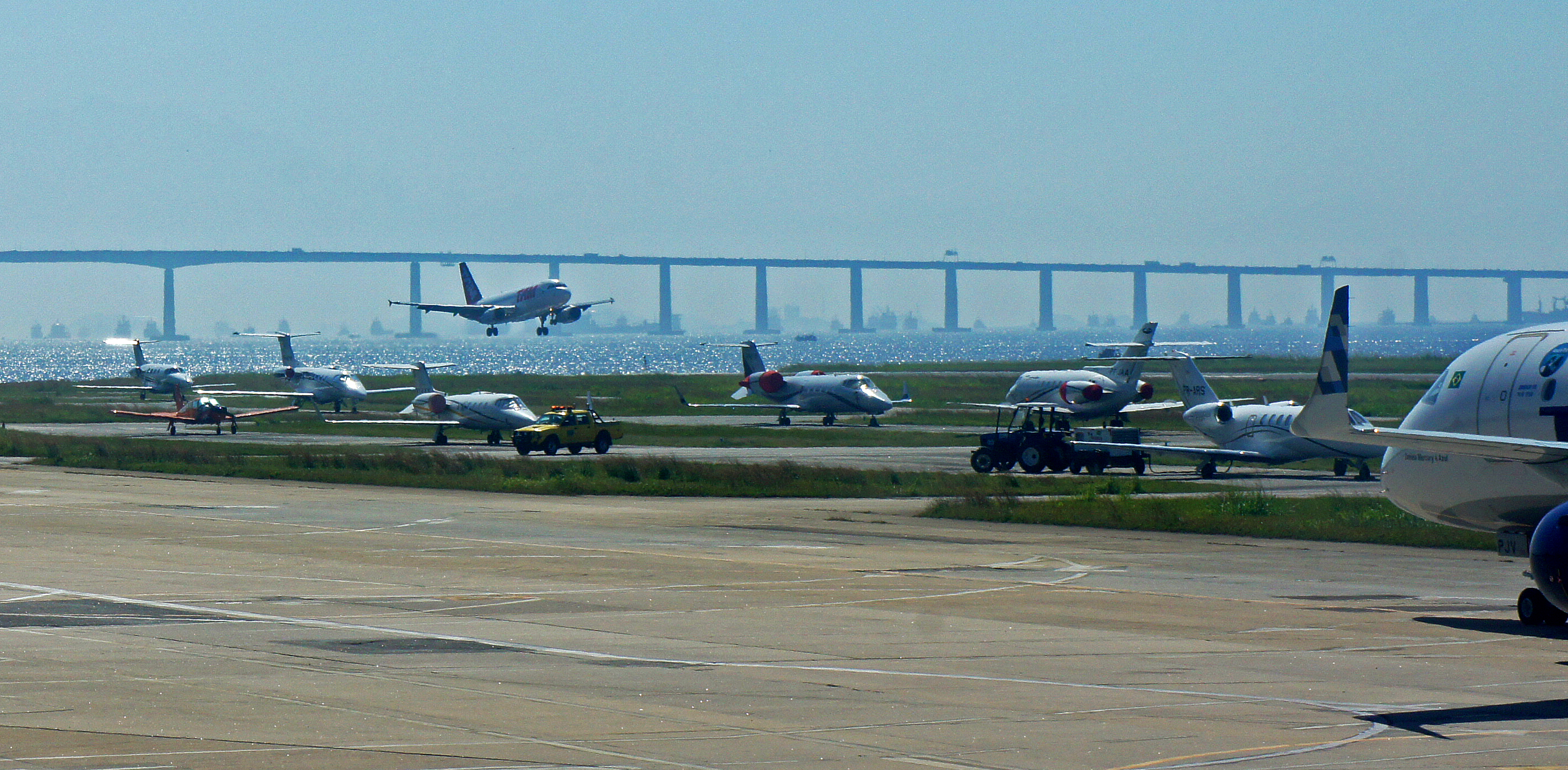 TAM jetplane landing at Santos Dumont Airport, Rio de Janeiro, Brazil. In the background is the Rio-Niterói Bridge.